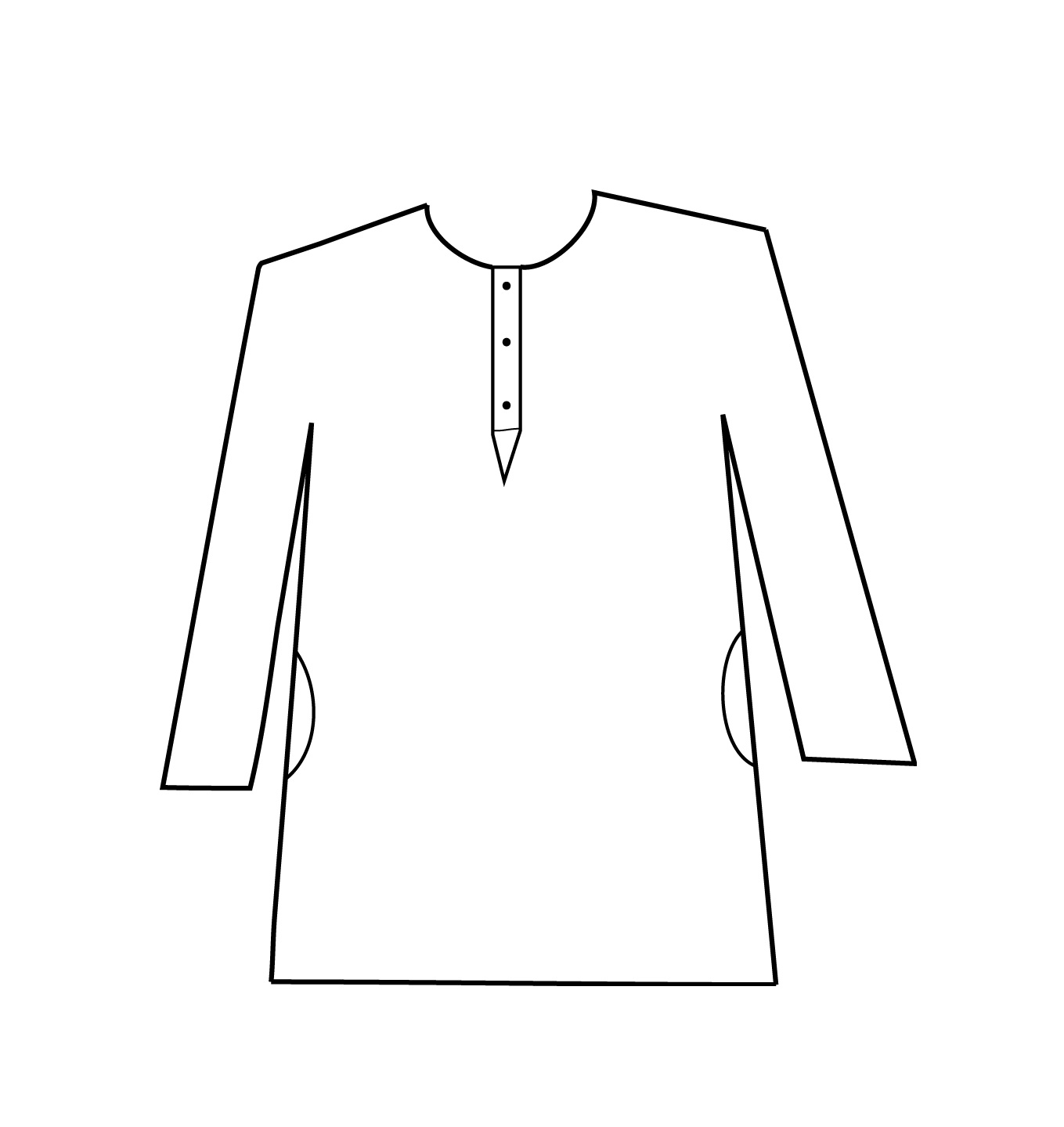 A diagrammatical representation of men's Kurta worn in India and the surrounding countries. This diagram does not have a Mandarin (Chinese) collar, is three buttoned, having pockets on either side of the waist. Based on personal preferences, the wearers may opt for a Mandarin Collar, increase or decrease the number of buttons (can be ordinary or pressing, have pockets on one or both sides of the chest.